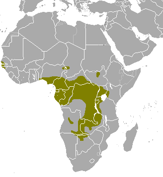 Range map of the Sitatunga (Tragelaphus spekii) according to: IUCN SSC Antelope Specialist Group 2008. Tragelaphus spekii. In: IUCN 2011. IUCN Red List of Threatened Species. Version 2011.2. . Downloaded on 16 June 2012.